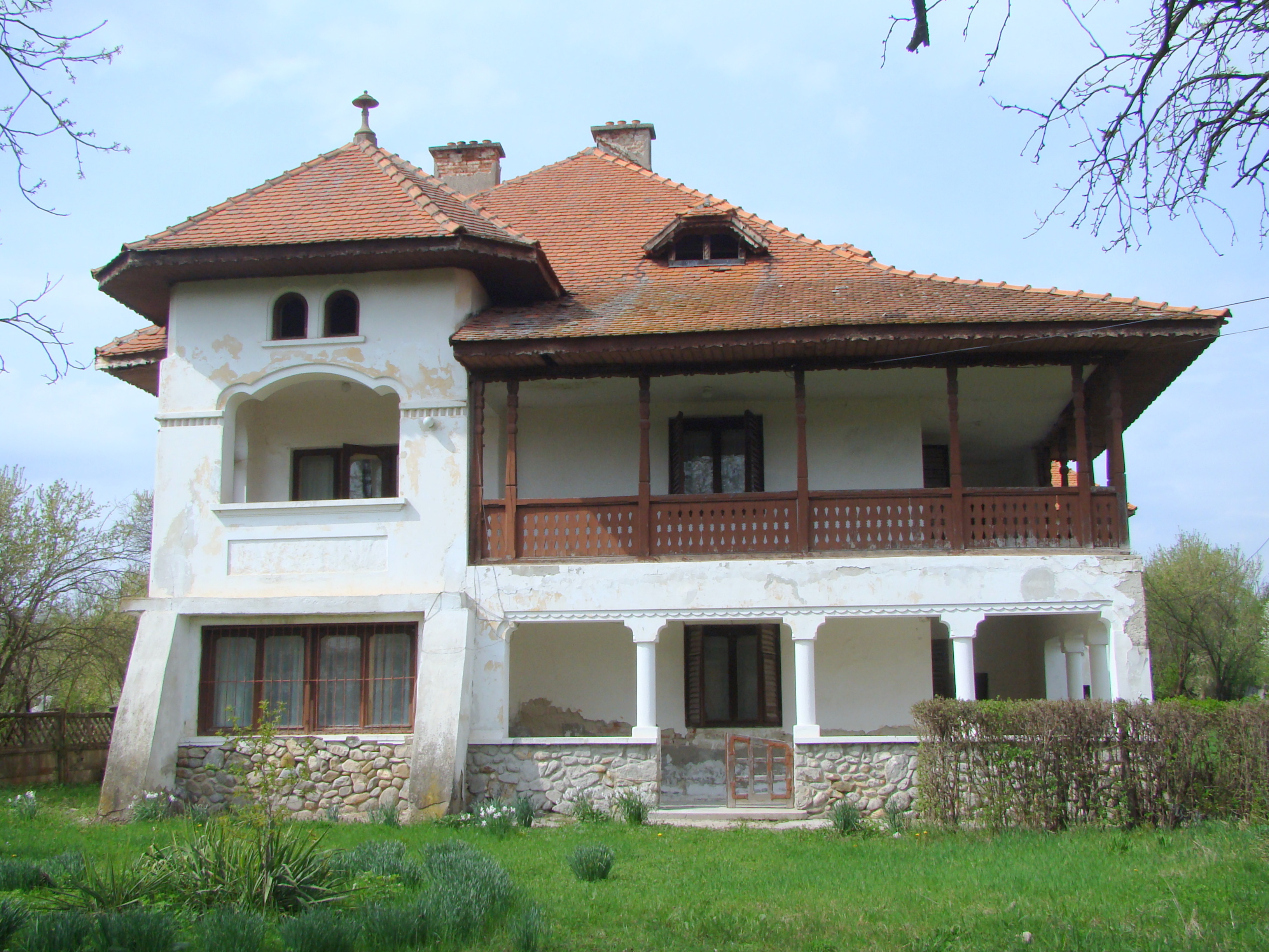 Ion Popescu-Voitești Memorial House in Voiteştii din Vale, Gorj county, Romania